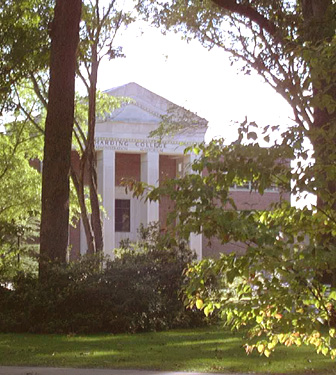 The Administration Building on the south end of the central campus.